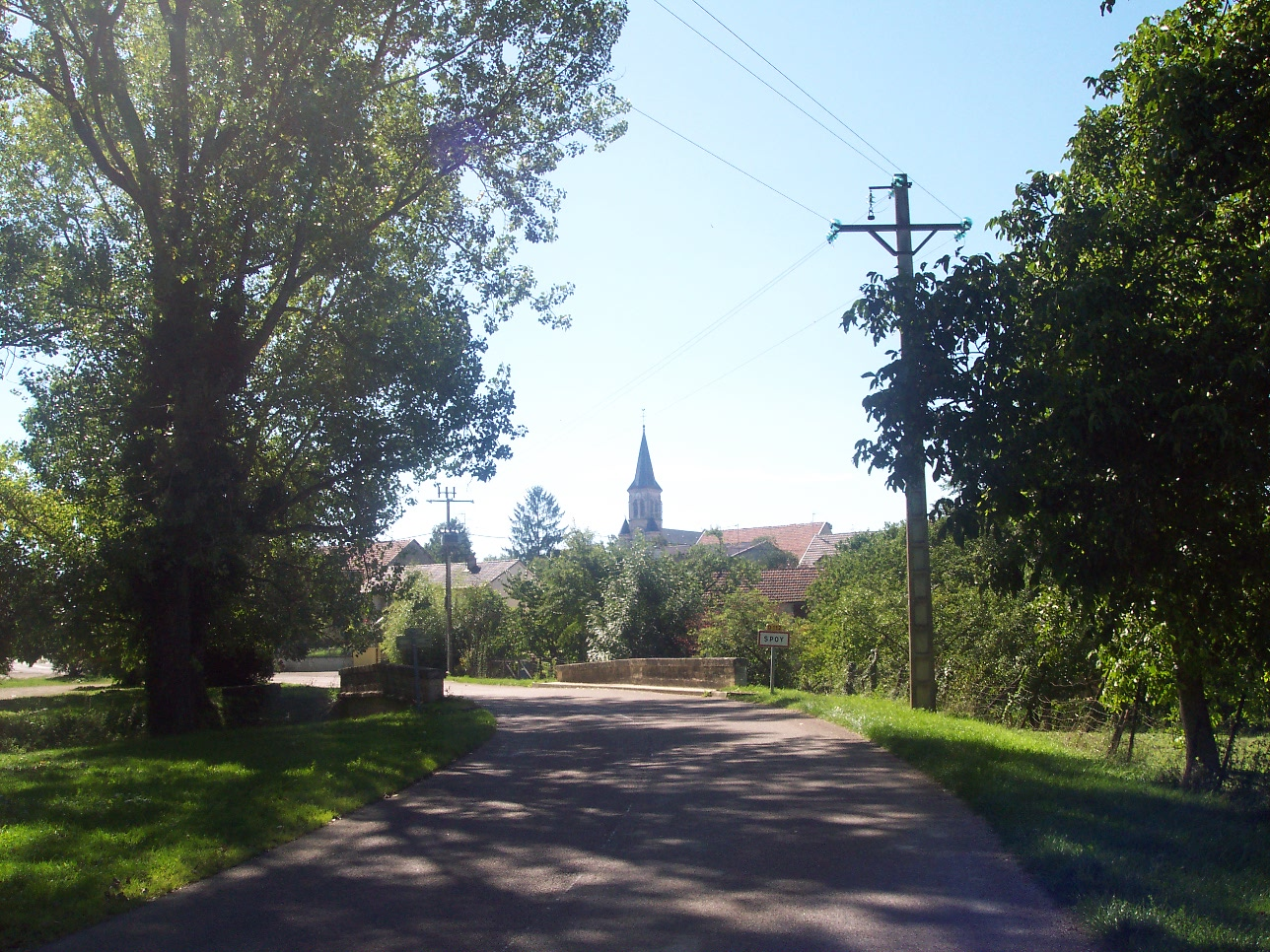 Spoy